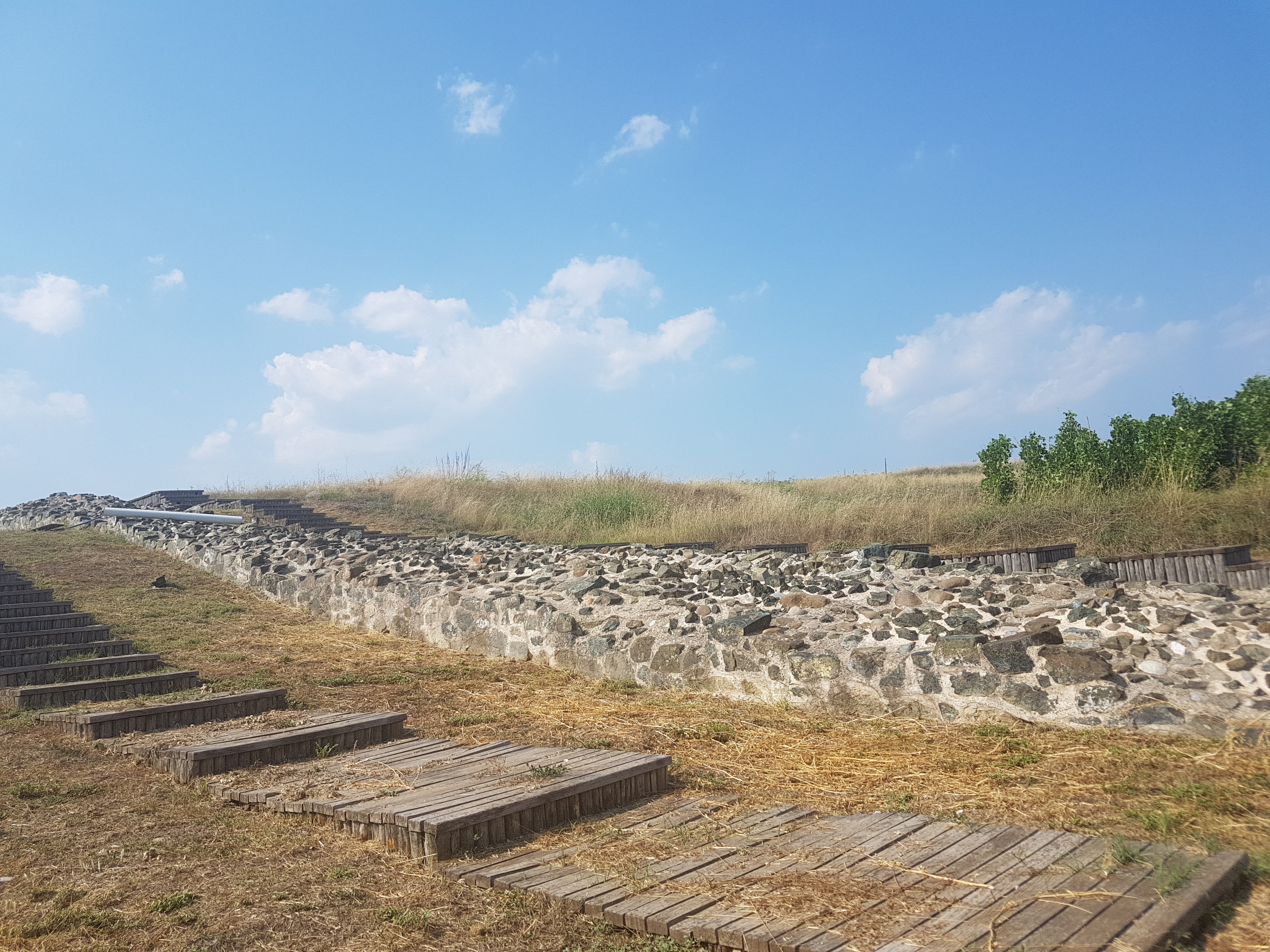 Diocletianopolis Kastoria, wall base